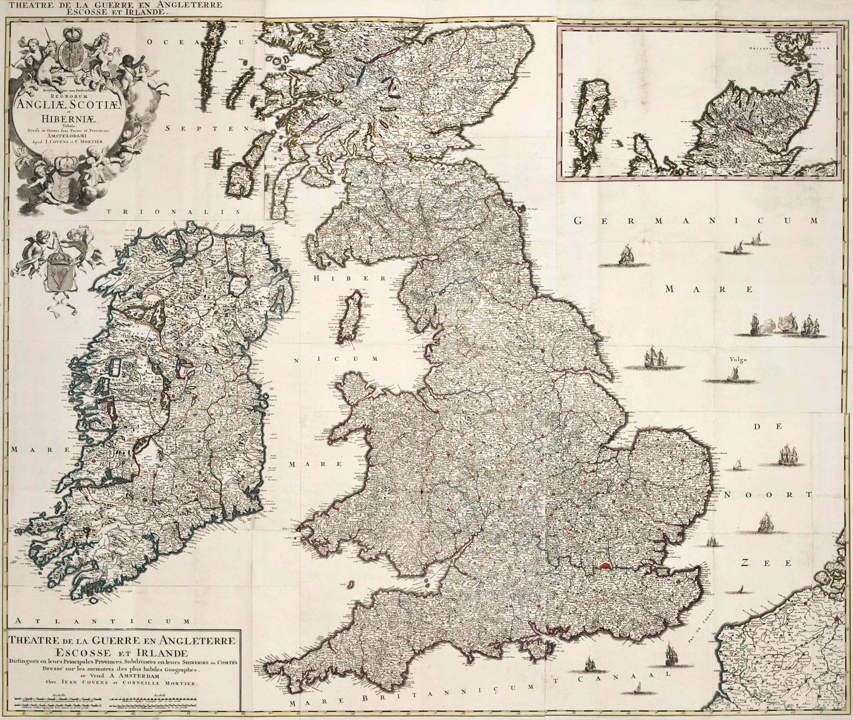 title=Regnum Angliae Scotiae et Hiberniae etc.